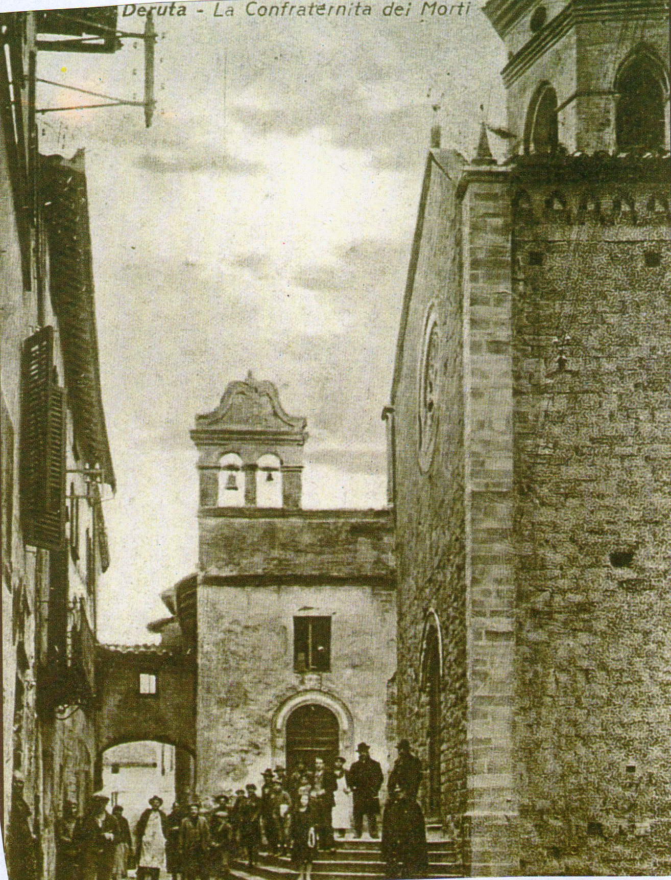 iiiiiiiiiiiiiiiiiiiiiiiiiiiiiiiiiiiiiiiiiiiiiiiiii